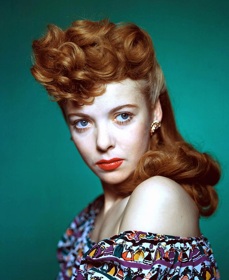 A promotional colorized shot of actress Ida Lupino (1918 - 1995)